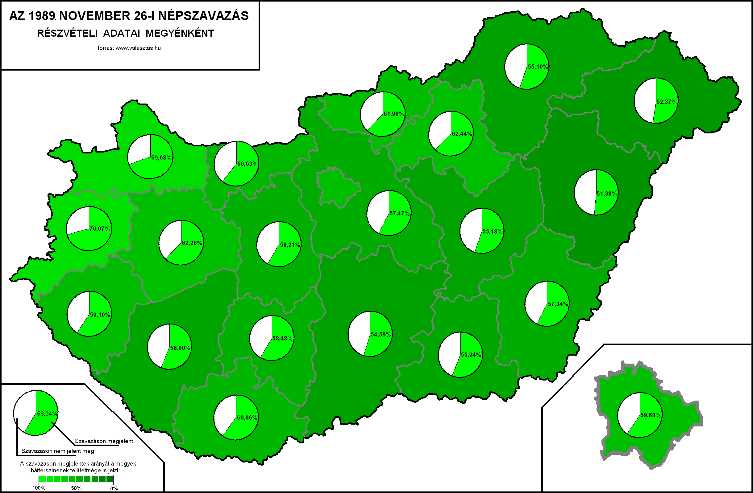 1989 Hungarian referendum, Participation by county